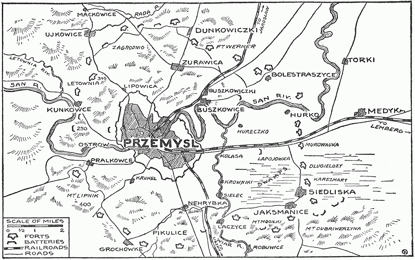 Map showing forts of Przemysl and surroundings, 1914 - 1915